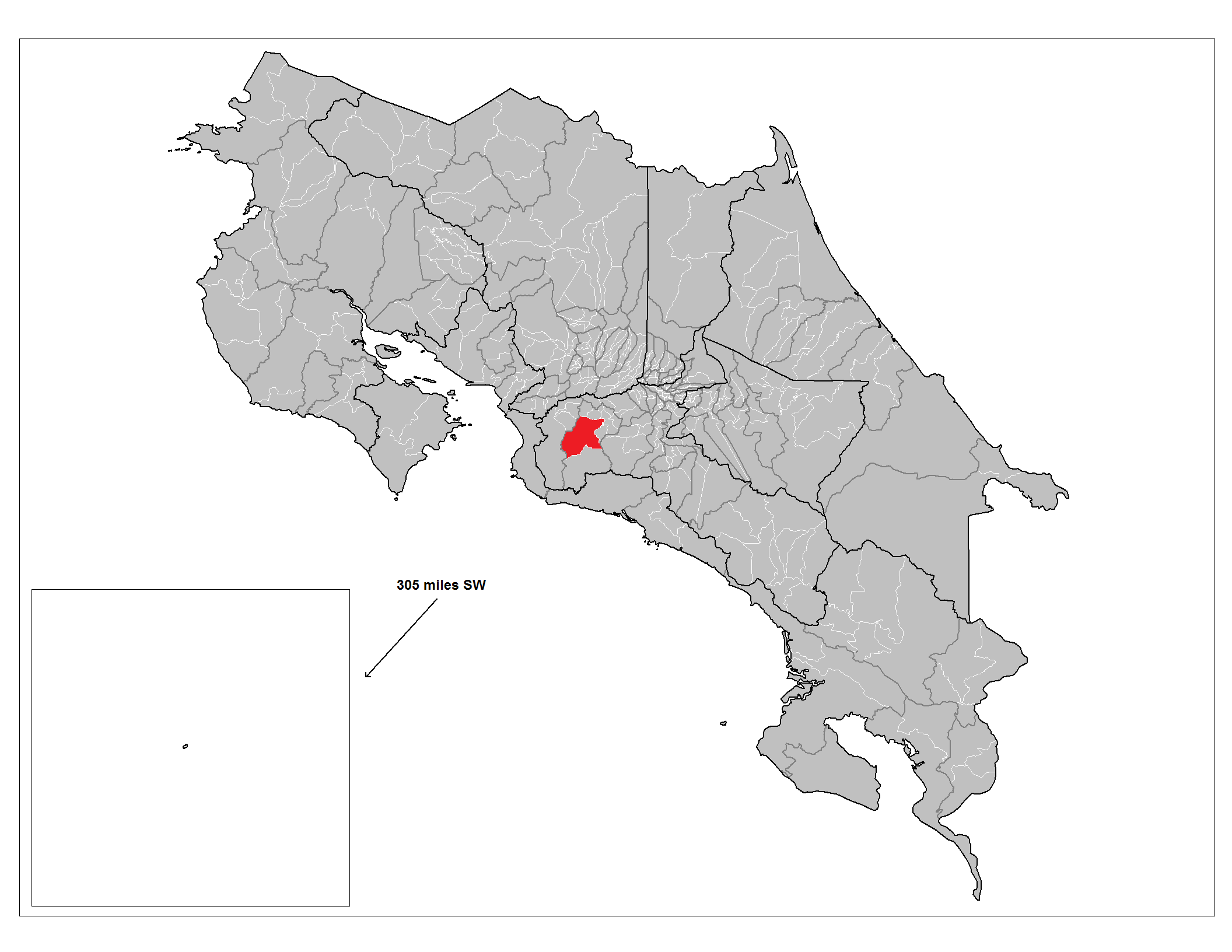 Location of Mercedes Sur district, in Puriscal canton, San José Province, Costa Rica